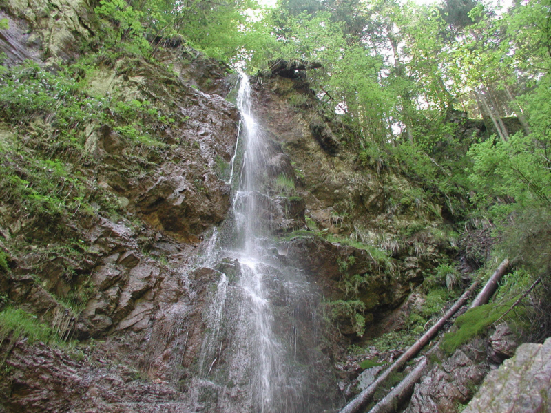 Small Waterfall in theLothenbachklamm between Loeffingen and Bonndorf in Soutwest Germany